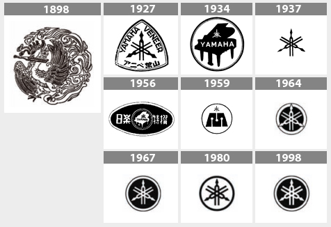 History of the brand